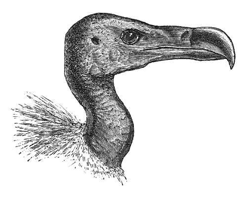 Slender-billed Vulture (Gyps tenuirostris).